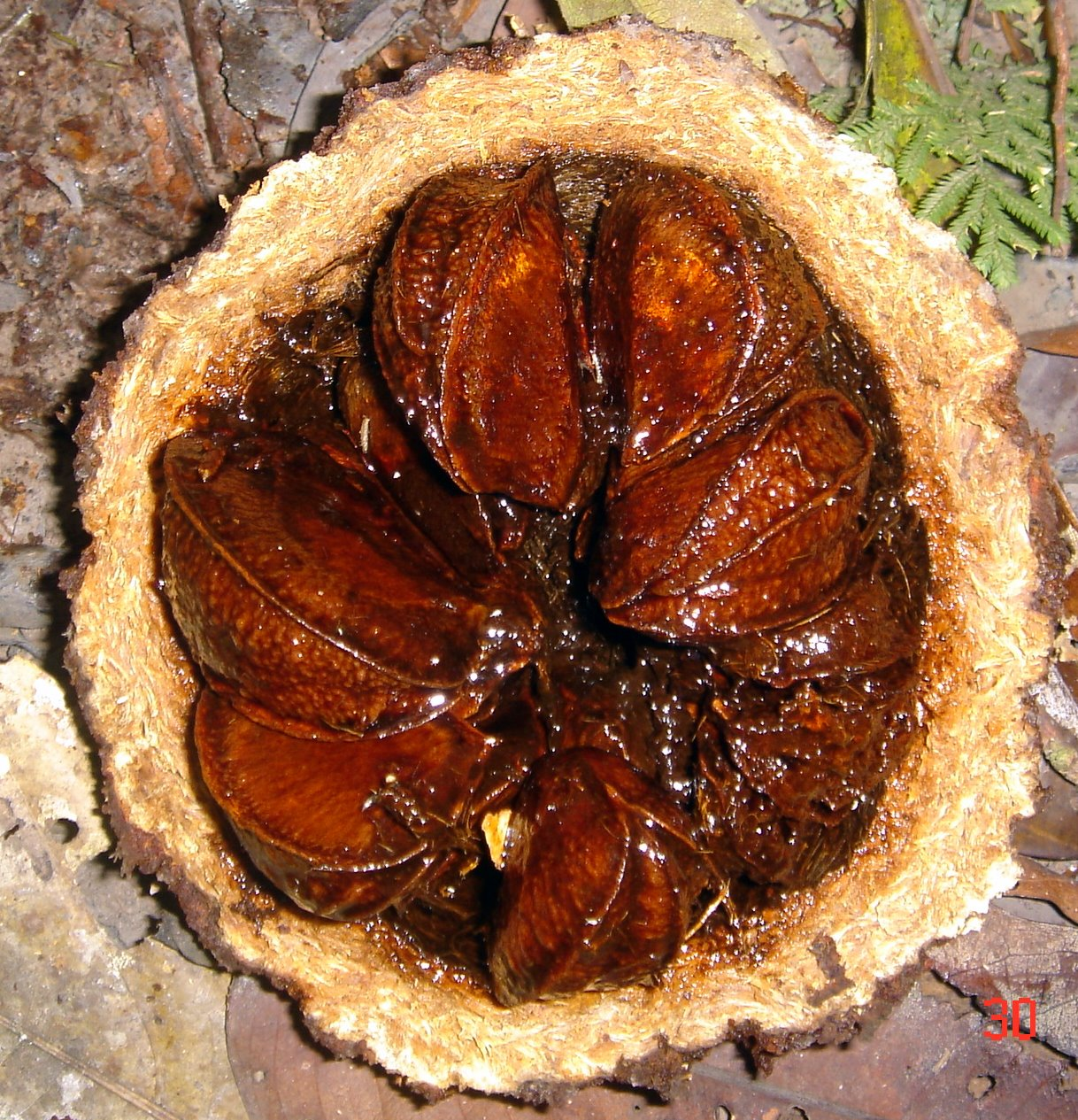 A fresh cut Brazil nut fruit near Jauaperi River, Lower Rio Branco-Rio Jauaperi Extractive Reserve, Brazil